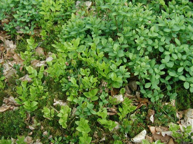 Three species of Vaccinium: Upper right corner - V. uliginosum (blue-green leaves) Center left - V. myrtillus (light green leaves) Lower left corner - V. vitis-idaea (glossy, dark green leaves) Photo from Linnaeus's museum in Sweden.